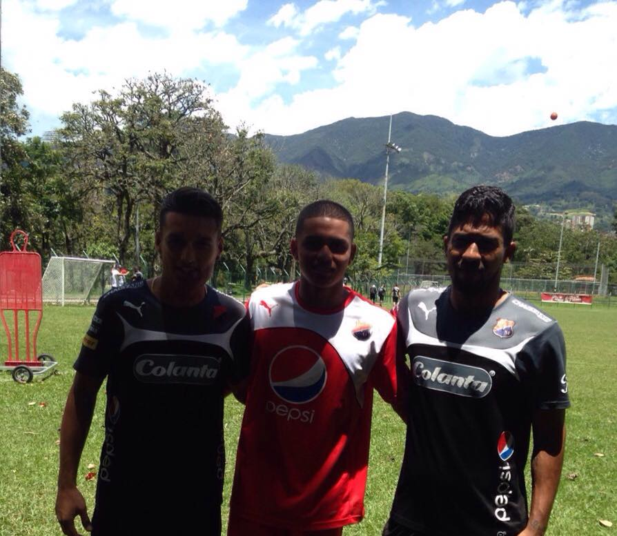 Training, with John Édison 'La Goma' Hernández (left) and Cristian Marrugo (right)